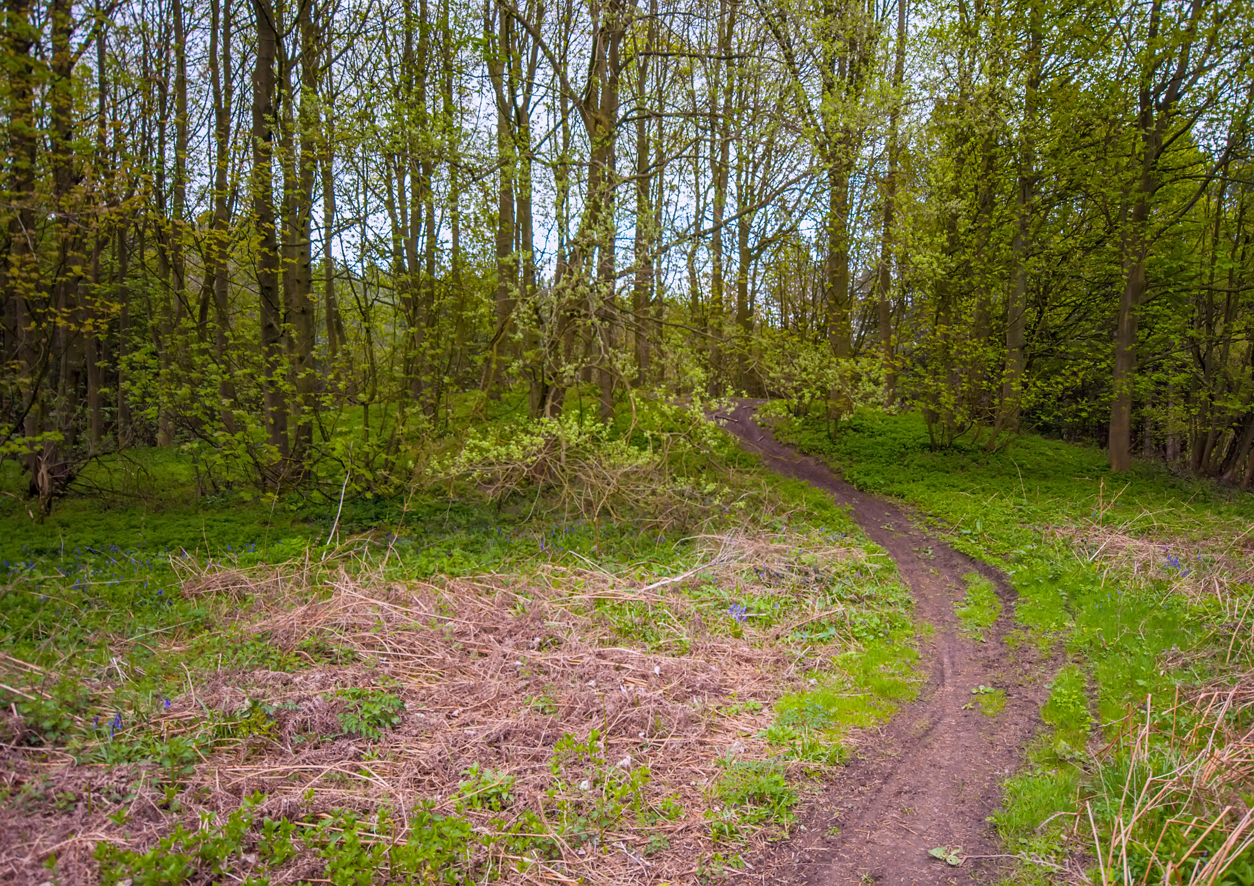 Annesley motte and bailey castle Wikidata has entry Q17649386 with data related to this item.